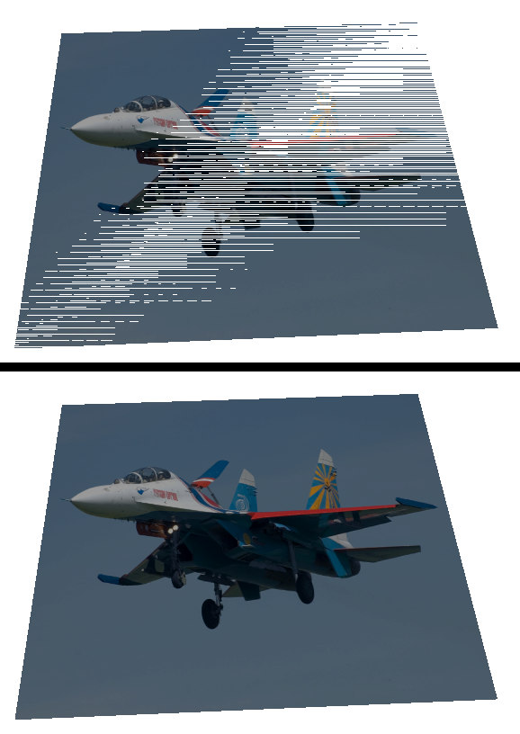 An example for using stenciling to resolve z-fighting. The surface on which the image is shown is 0.1 units far from the white plane underneath. That is, however, not enough to prevent z-fighting that manifests as the white diverging pattern on the upper half of the image. Stenciling helps resolving the problem by not letting the white plane to render where the other plane is being shown.